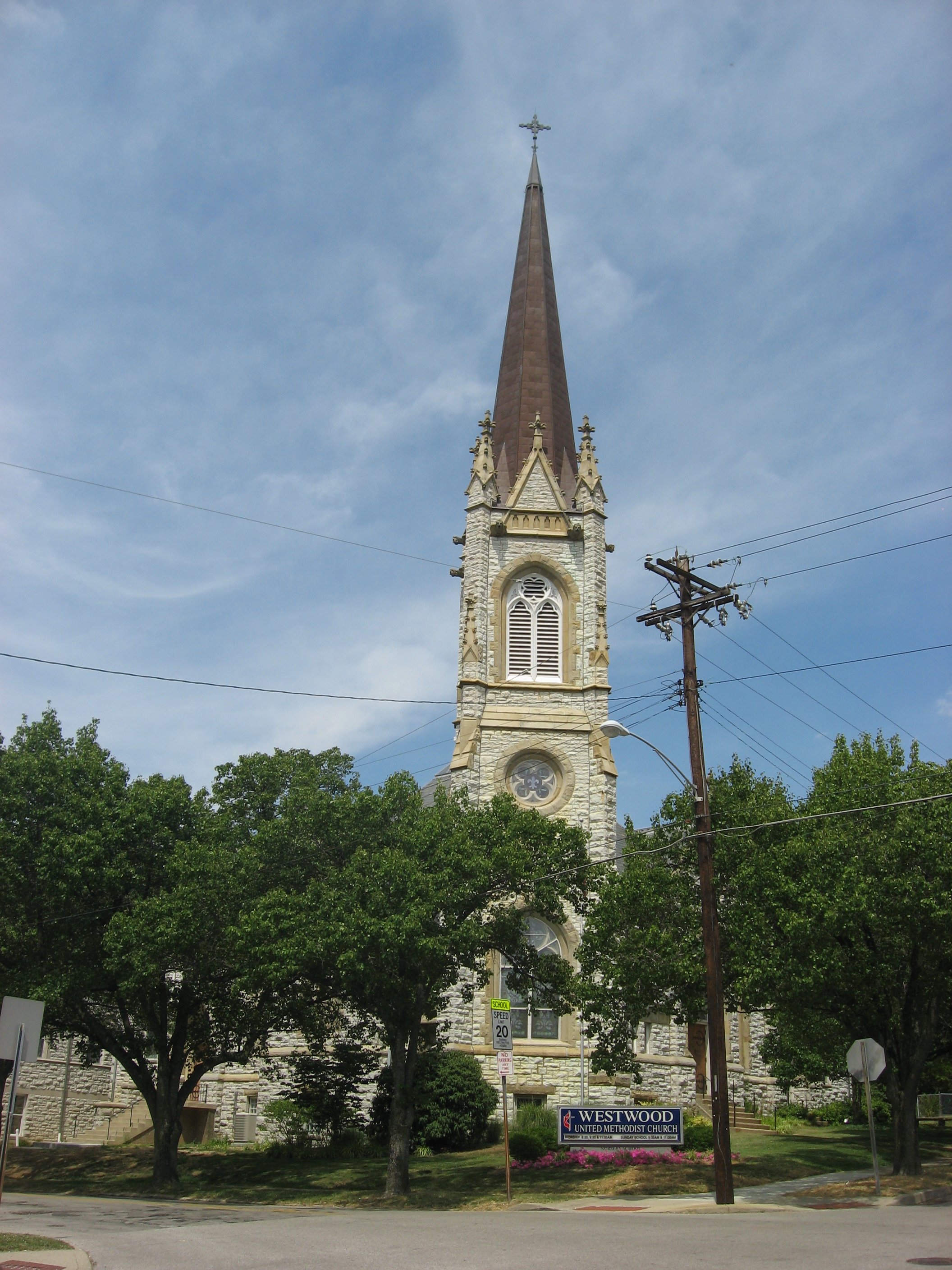 Front of the Westwood United Methodist Church, located at the junction of Epworth, Harrison, and Urwiler Avenues in the Westwood neighborhood of Cincinnati, Ohio, United States. Built in 1896 to a Samuel Hannaford design, it is listed on the National Register of Historic Places, and it is part of a Register-listed historic district, the Westwood Town Center Historic District.